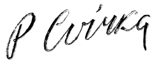 Signature if Lithuanian writer Petras Cvirka (1909-1947)